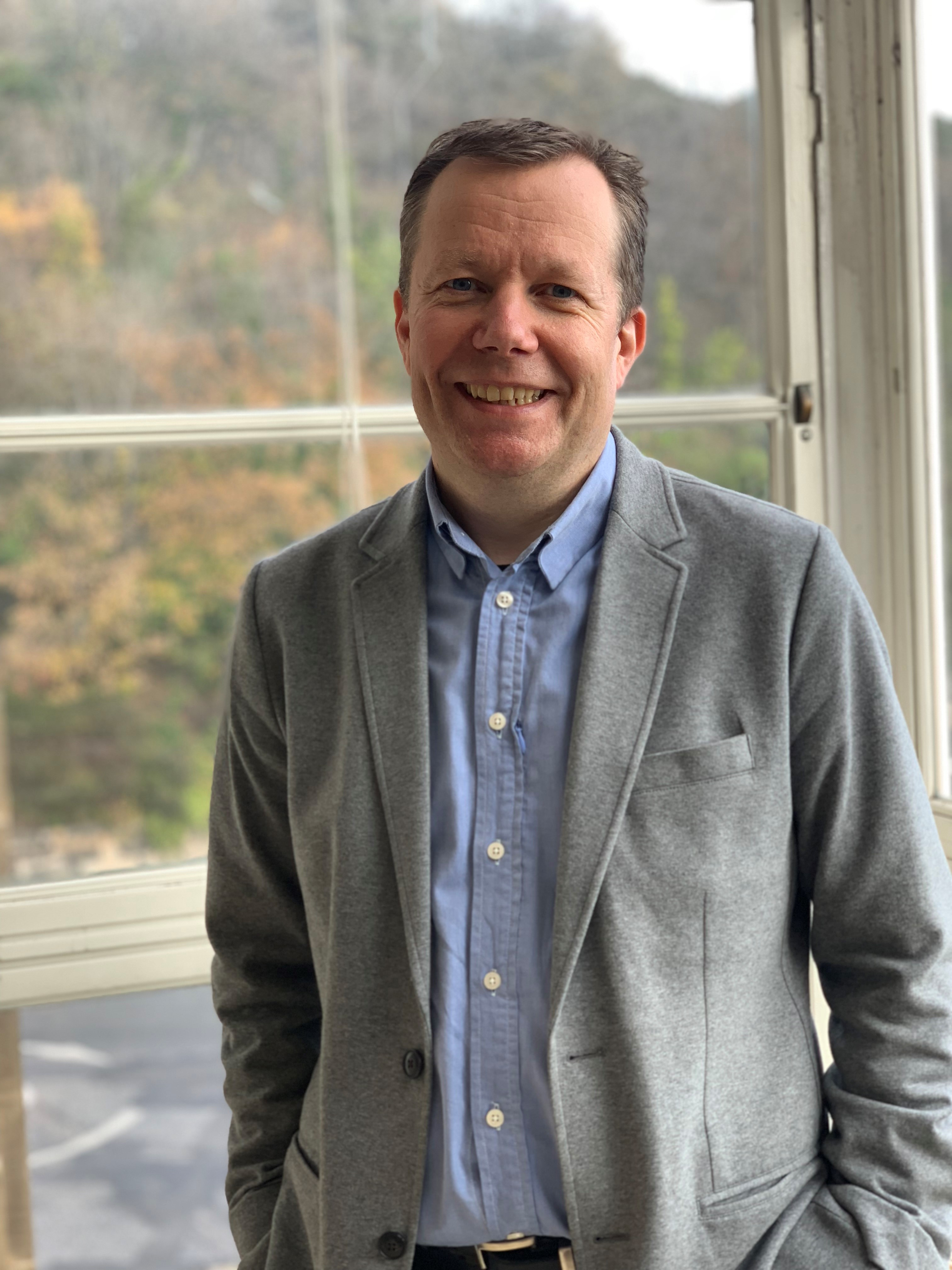 Photo of Jason Leitch